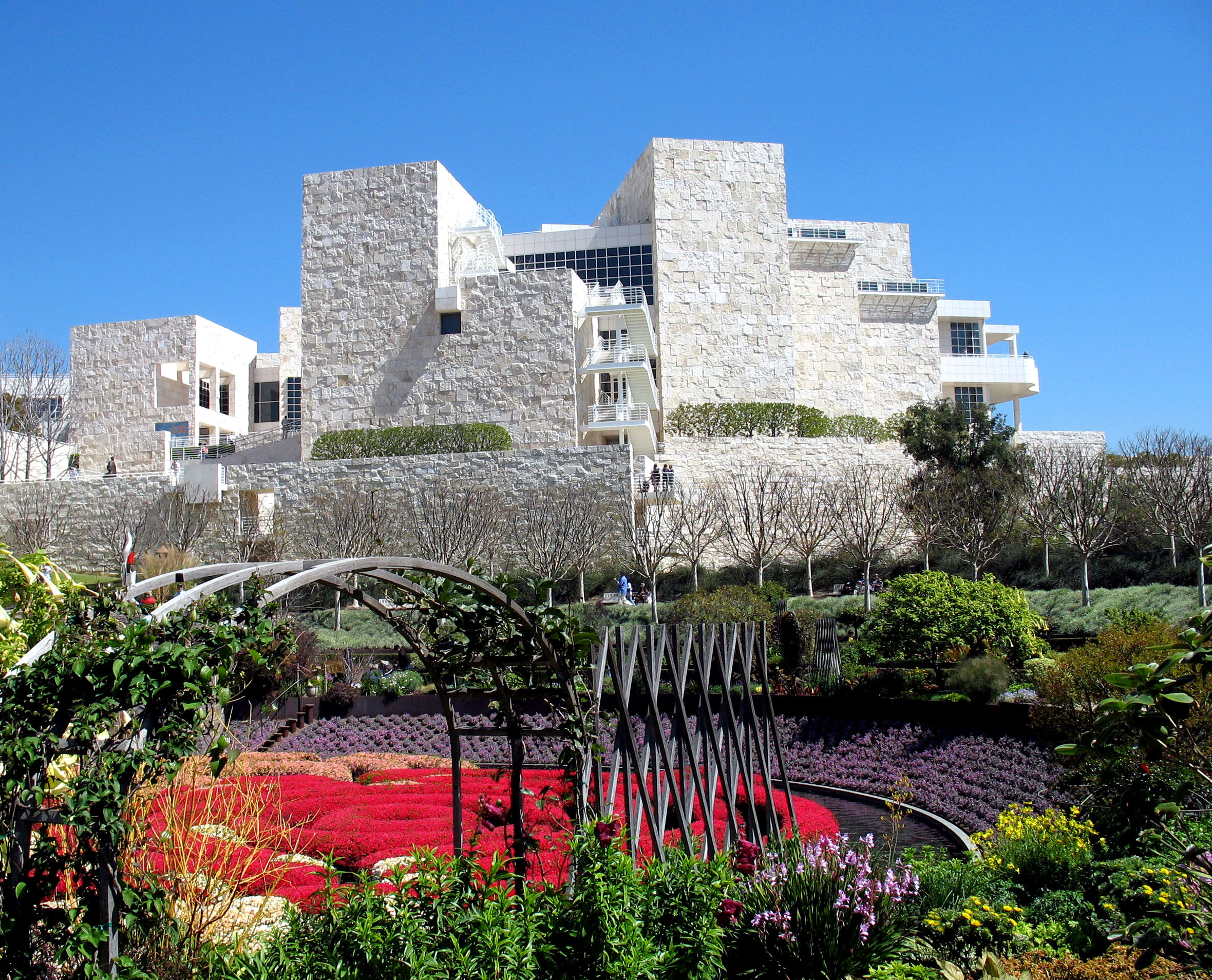 Getty Museum and Central Garden.